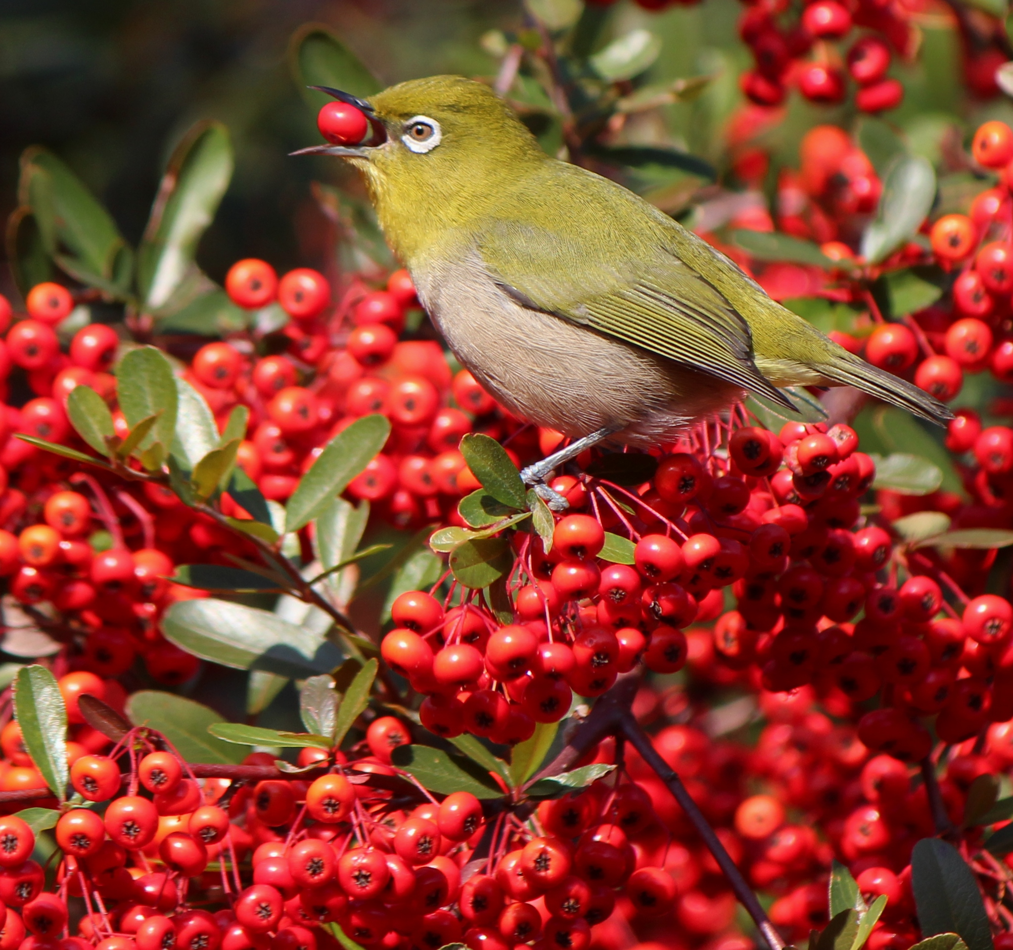 Zosterops japonicus japonicus (Japanese White-eye) eating red fruits of Scarlet Firethorn (Pyracantha coccinea), in Japan.